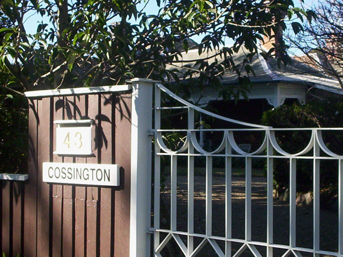 Outside the front of the house once occupied by Grace Cossington Smith, in Turramurra, Sydney. The house is now a suburban home.